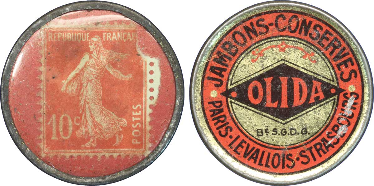 Olida, timbre de 10 centimes